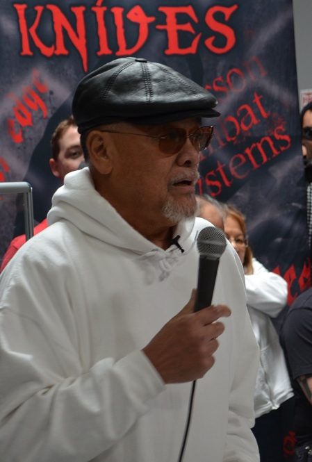 Richard Bustillo at the Emerson Knoves Grand Opening 2/11/2012, in Harbor City, California